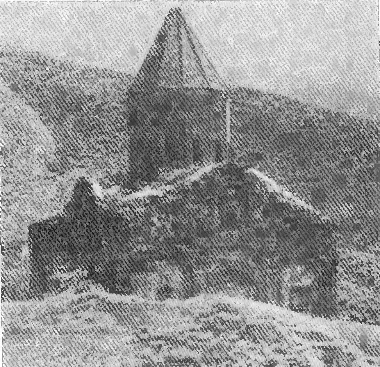 S Hakob Hayrapet in Paraka